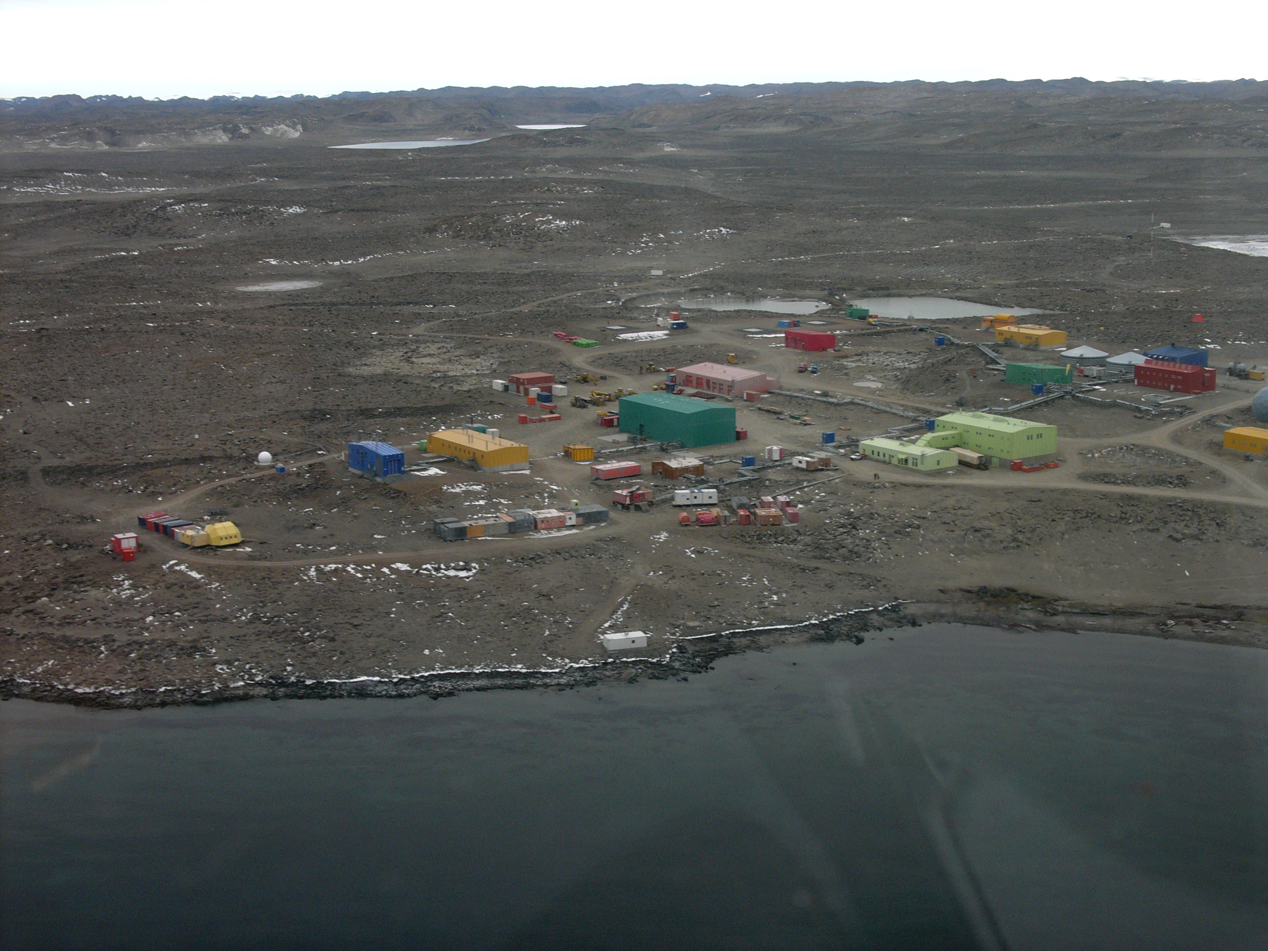 Davis station (Australia), Prydz Bay, Antarctica